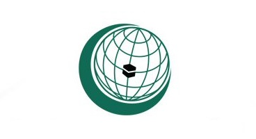 The OIC's new logo features a green crescent, a globe, and a representation of the Ka’aba – the cube-shaped structure in Mecca which Muslims revere as Islam’s most sacred site.